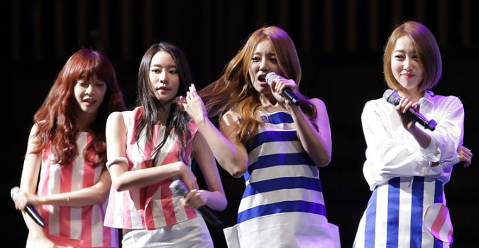 Melody Day at Soldiers Unity Day Festival, 4 September 2015